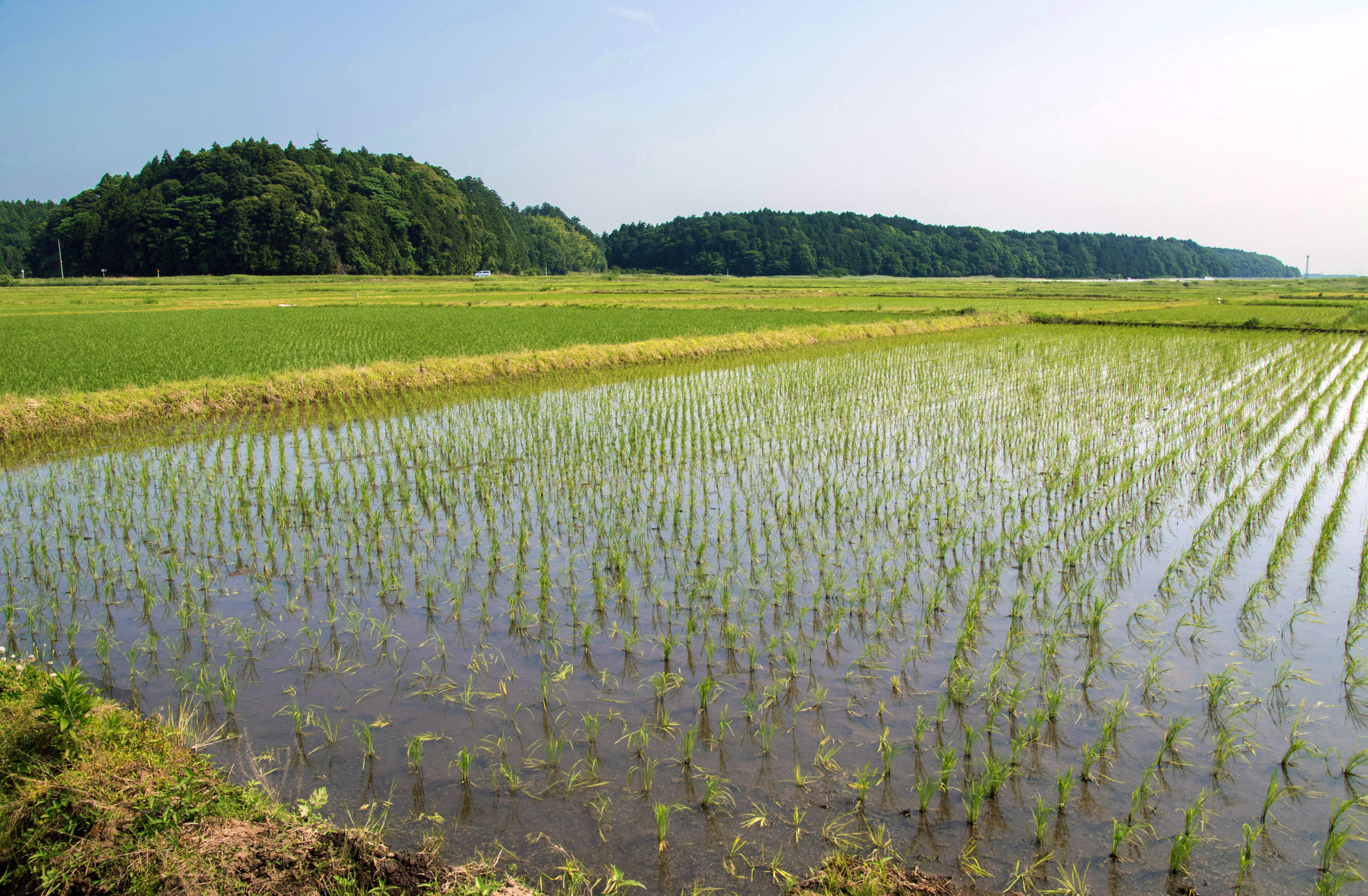 Paddy field in Tako Town, Chiba Pref., Japan Canon EOS 80D